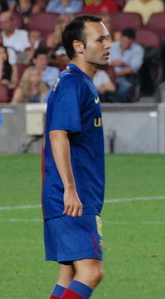 a photo of Andres Iniesta taken during Joan Gamper trophy 2008 by Shay and cropped by me.